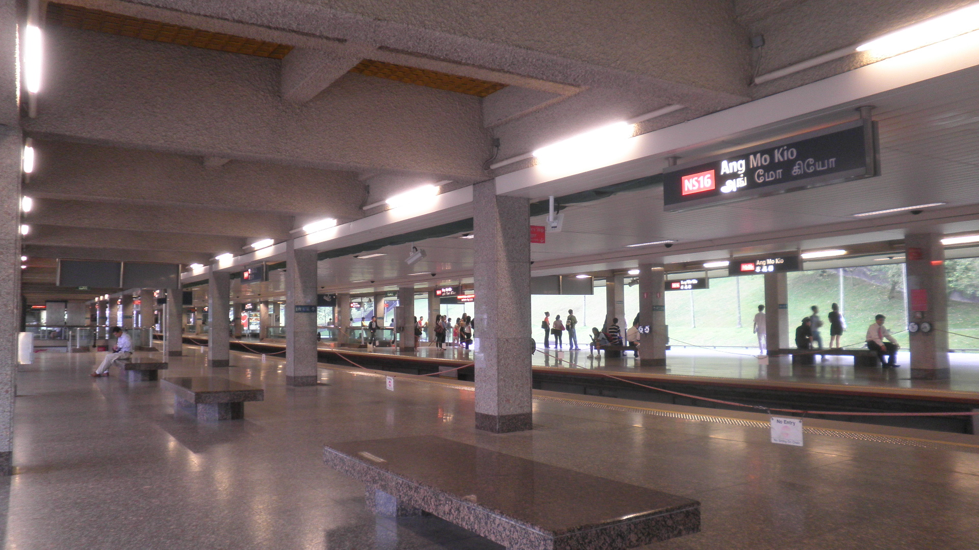 Ang Mo Kio station platform.